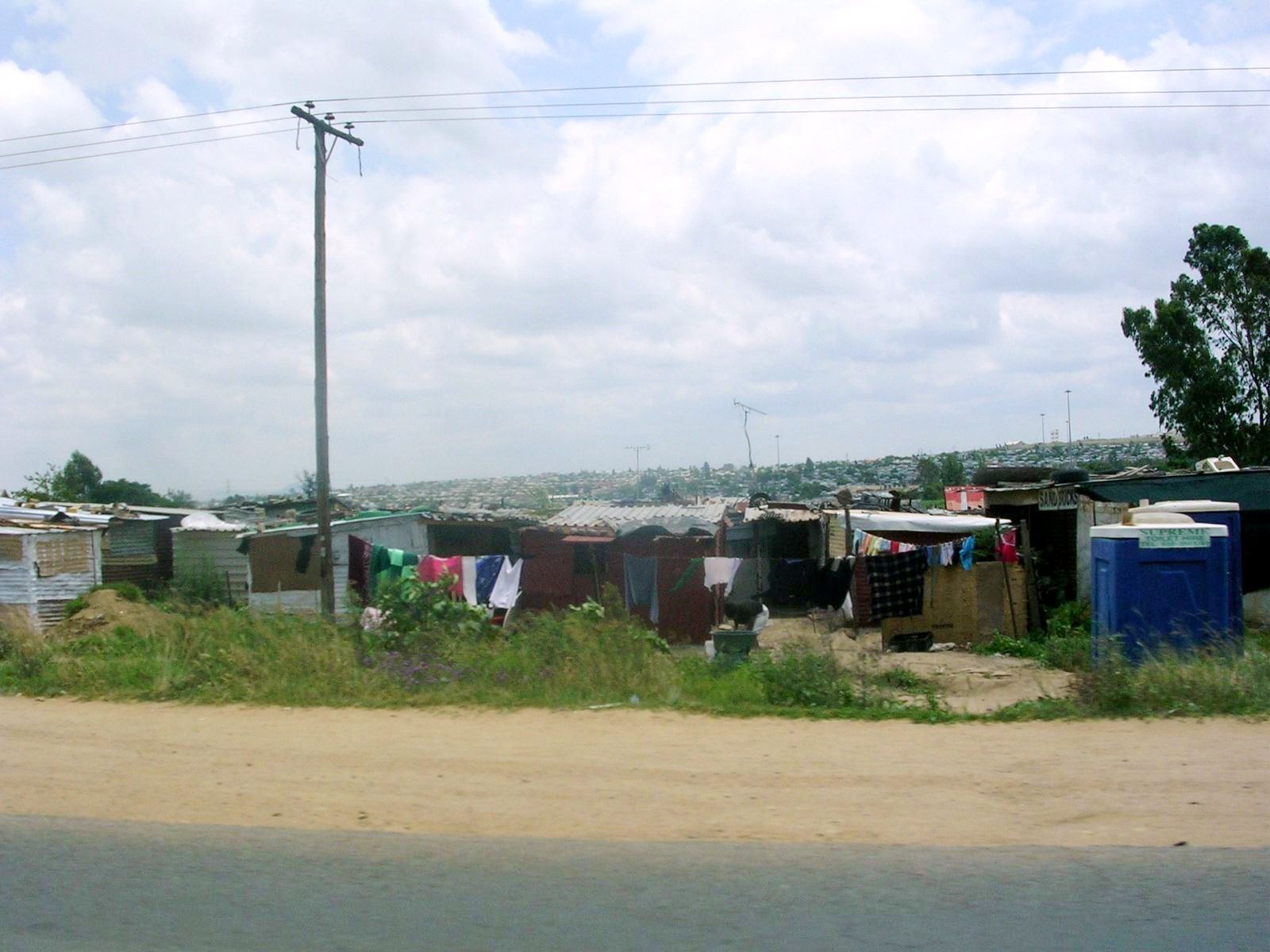 An informal township in Diepsloot, Gauteng Province, South Africa.